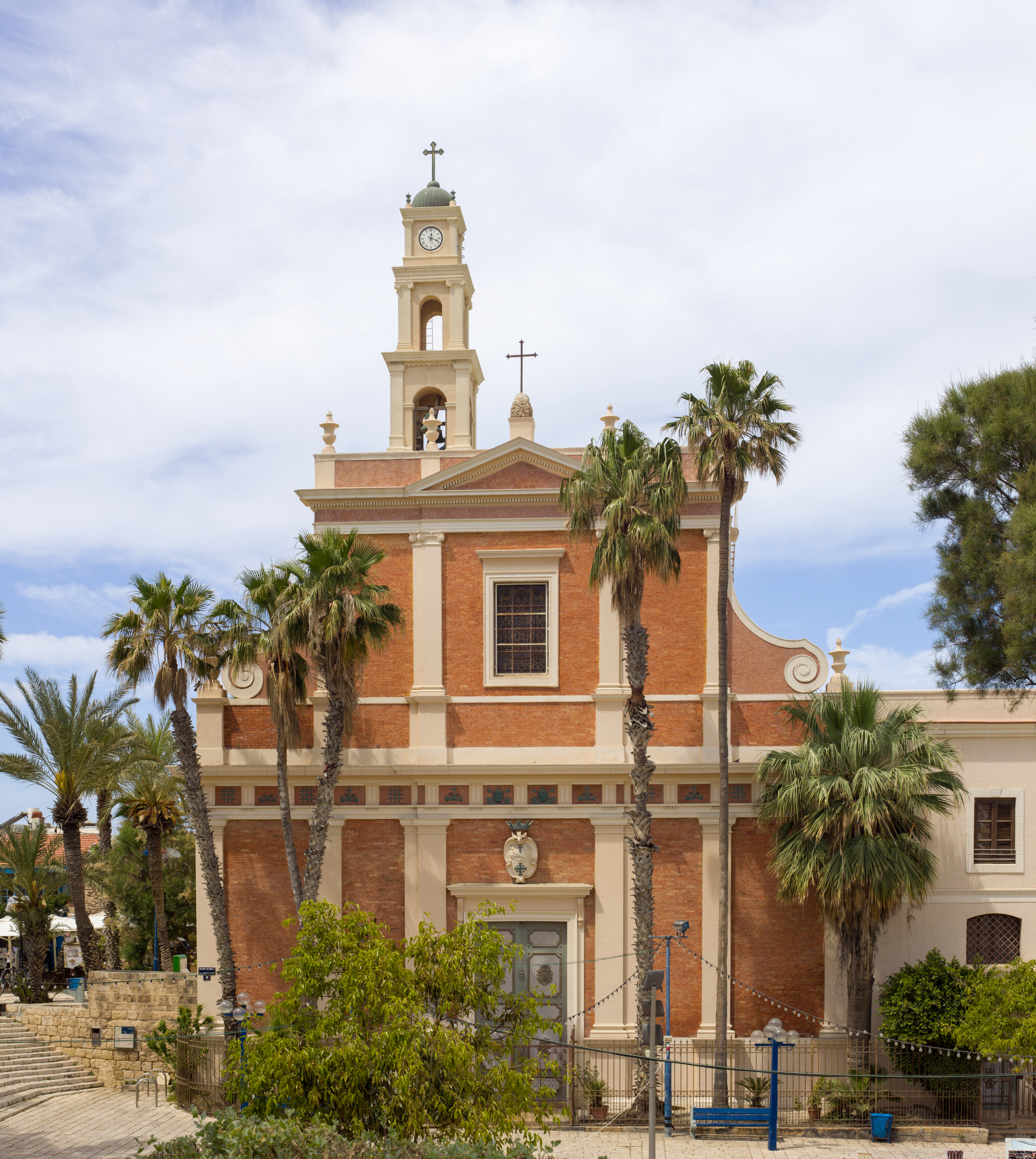 St. Peter's Church (Hebrew: כנסיית פטרוס הקדוש), Jaffa.